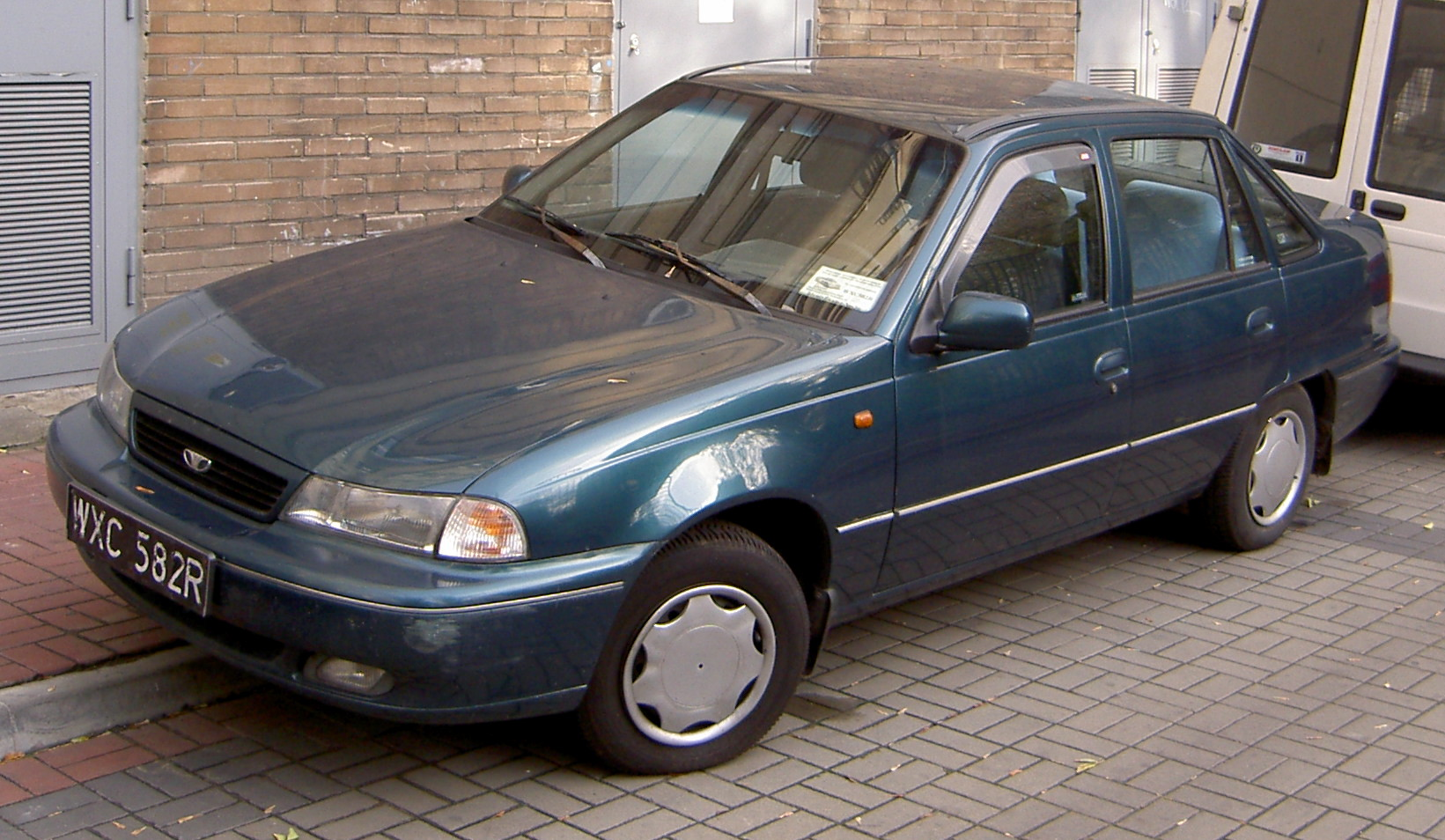 Daewoo Nexia seen in Warsaw Picture taken by me in november 2006